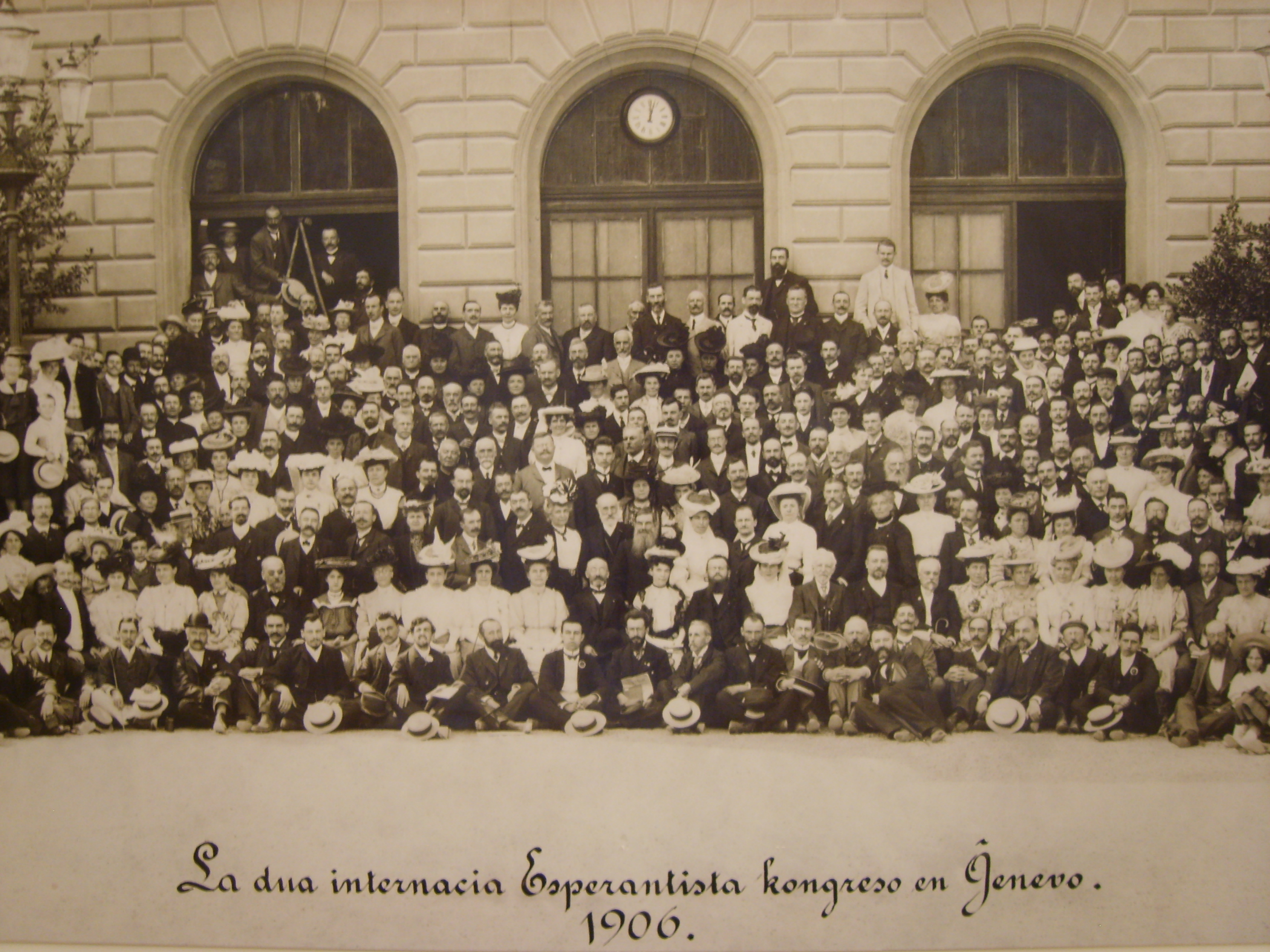 Österreichische Nationalbibliothek - Esperantomuseum Dieses Bild wurde anlässlich des österreichischen Tags des Denkmals 2012 in Wien eingereicht.